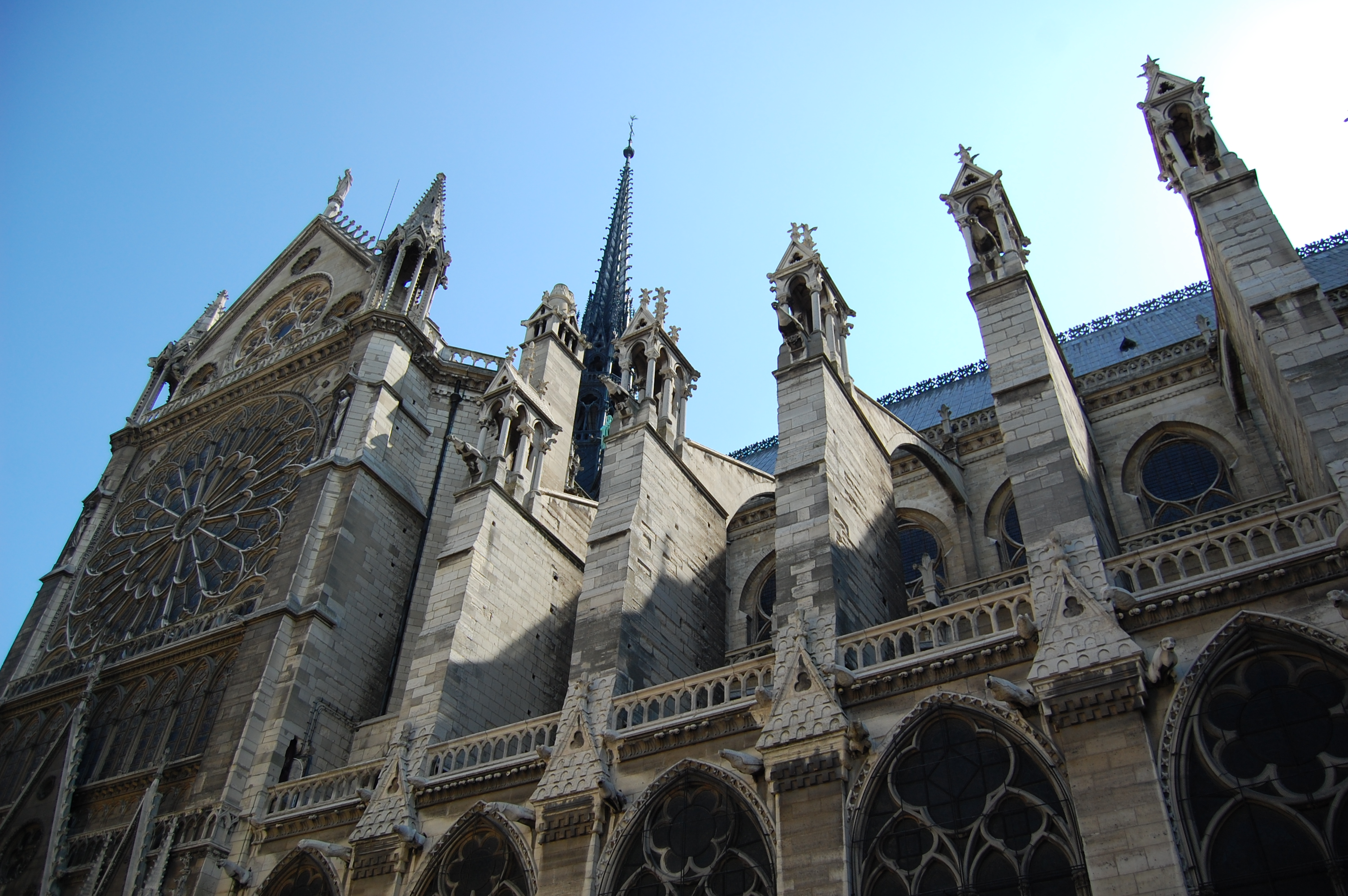 Cathedrale Notre Dame de Paris